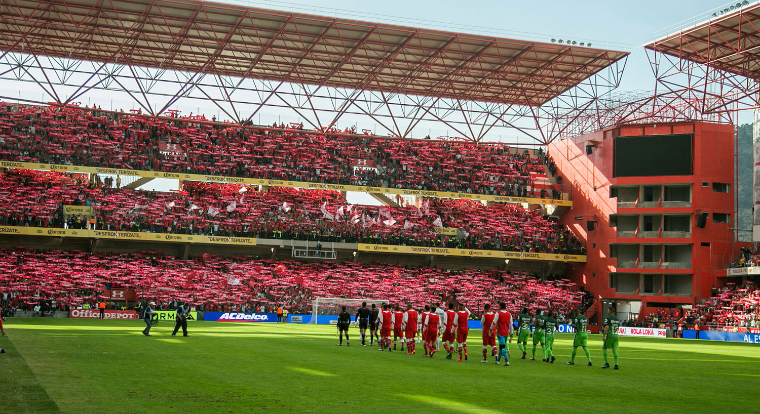 Estadio 2017